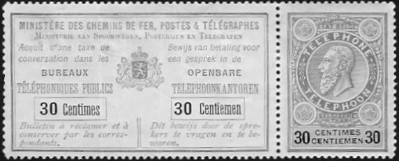 A Belgian telephone stamp.